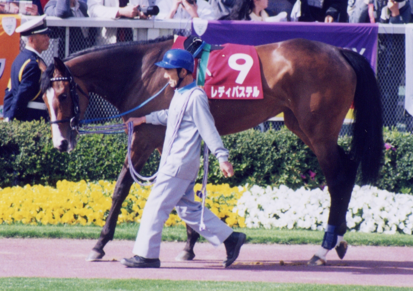 Lady Pastel